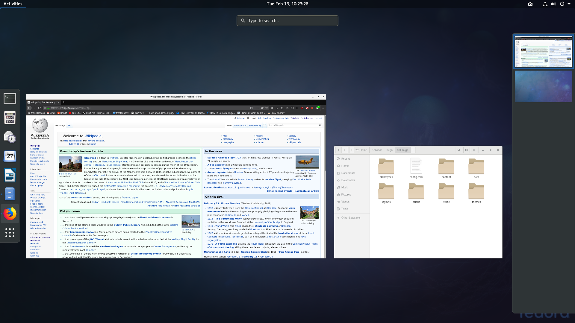 A screenshot of Fedora 27 Workstation using the GNOME desktop interface. The GNOME shell version is 3.26 that ships with Fedora 27 Workstation. The interface is in American English.